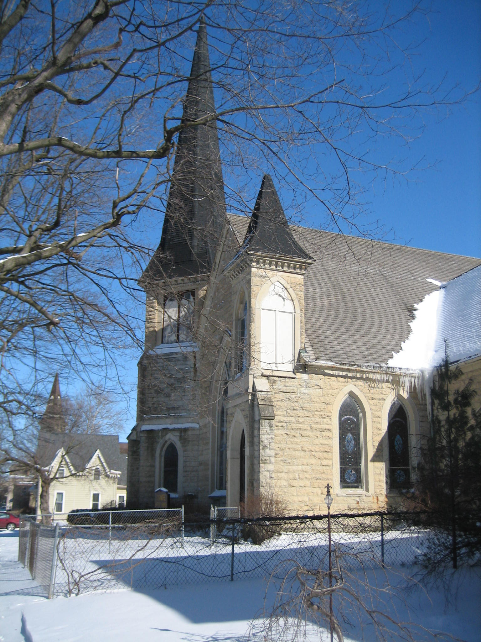 SE corner of High St. and Somonauk St., Sycamore Baptist Church, Sycamore, Illinois. Sycamore Historic District, National Register of Historic Places.